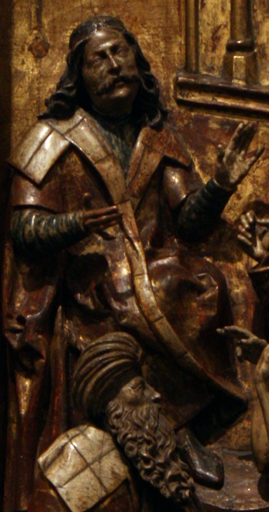 Gothic-Renaissance Triptych from Pławno (Łódź voivodship, Poland), nowadays in National Museum in Warshau